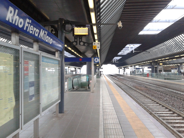 Rho Fiera Milano train station